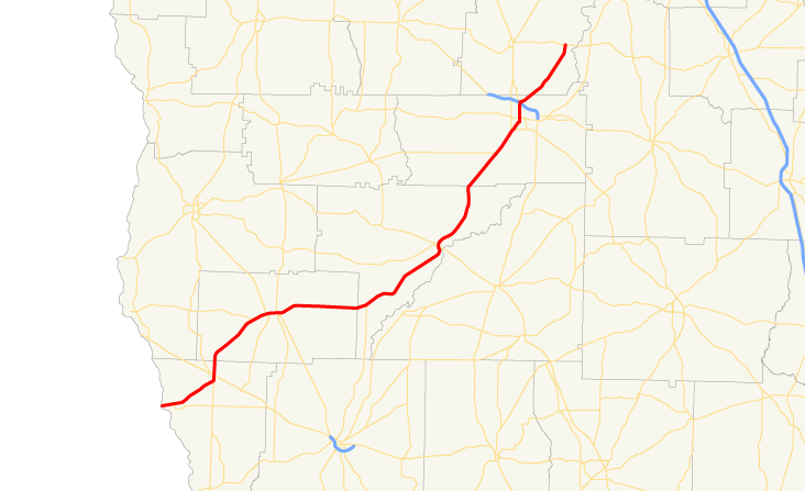 Map of Georgia State Route 91